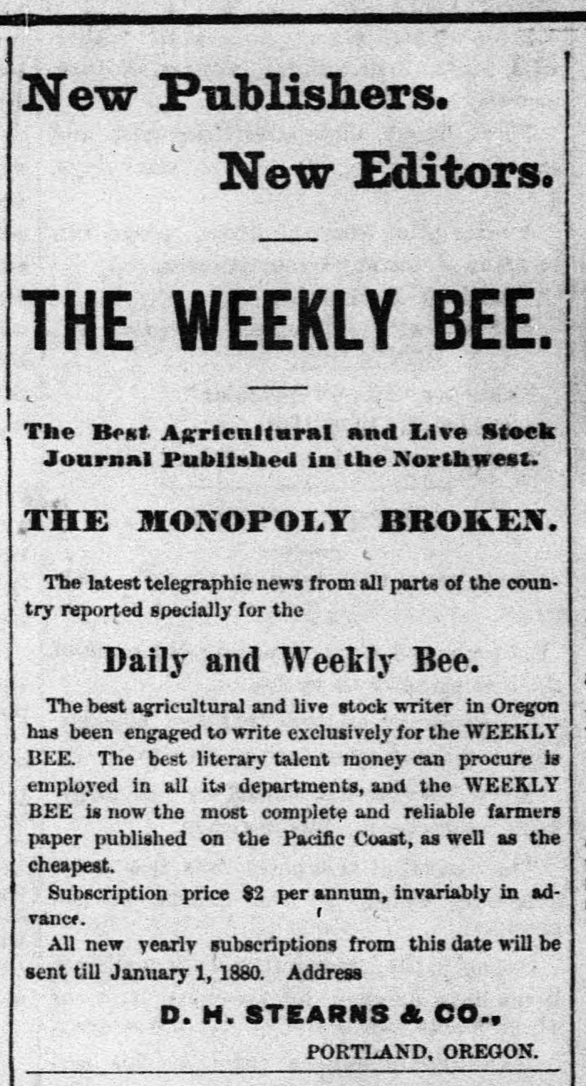 Published in the Douglas Independent, December 28, 1878.